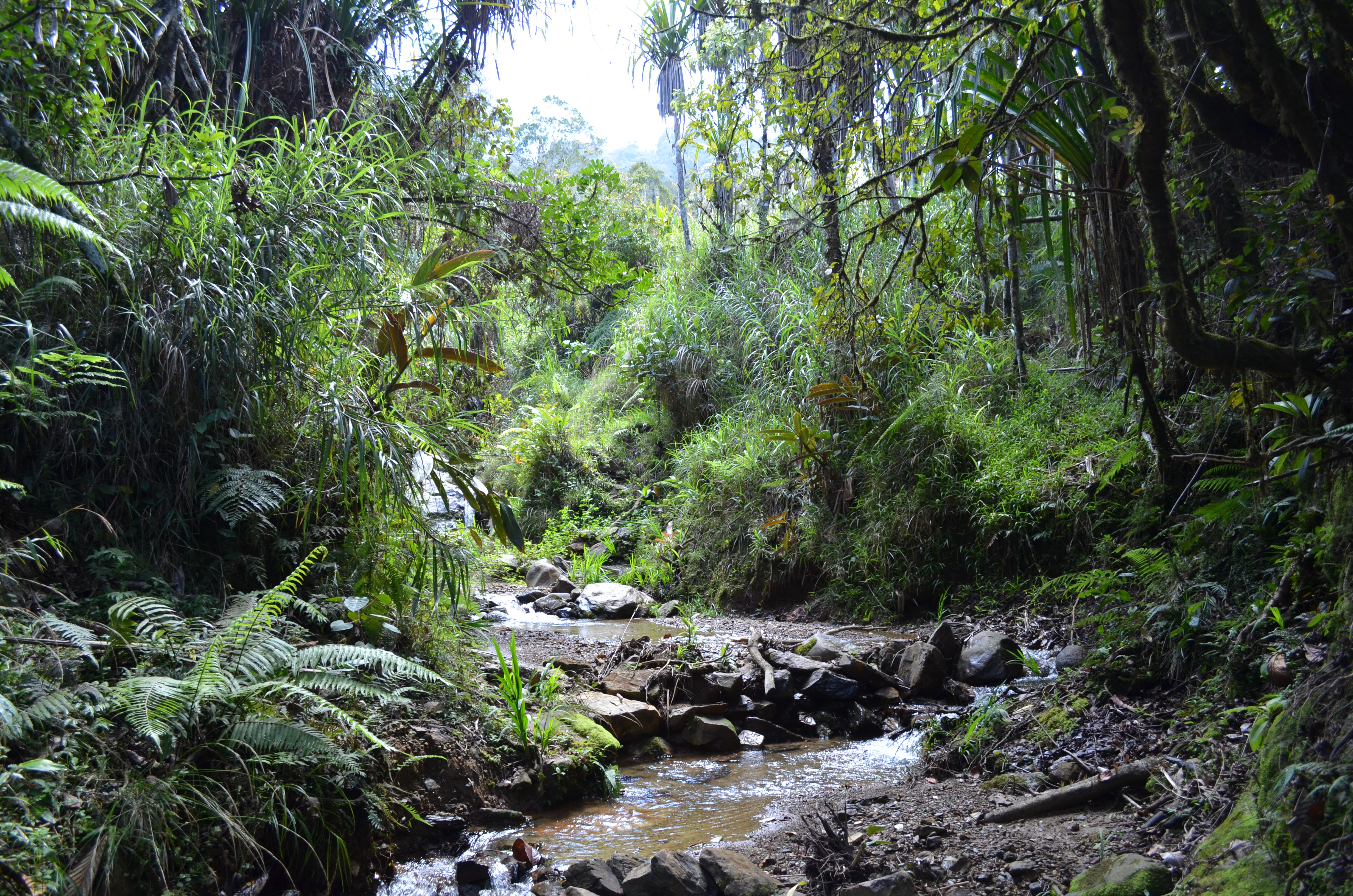 In the highlands of Papua new Guinea. Read about PNG on eGuide Travel